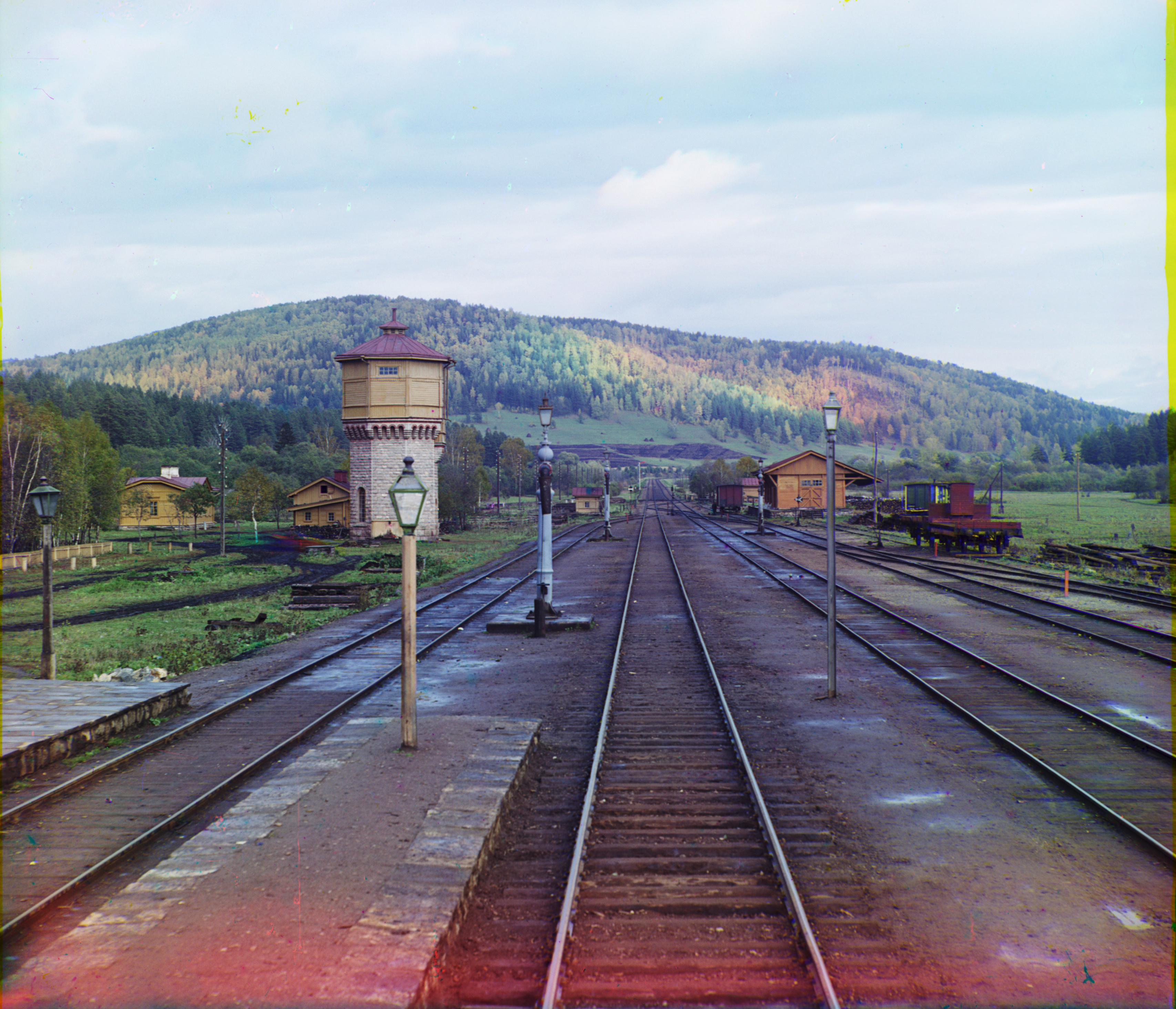 View from the rear platform of the Simskaia Station of the Samara-Zlatoust Railway, Russia. Very early color photograph by Sergei Mikhailovich Prokudin-Gorskii, made in 1910 on three glass plates, one for each of the colors red, green, and blue. Scanned and combined into a digital image in 2003.